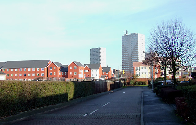 New housing towards Heath Town, Wolverhampton The view is looking along Hemmings Close to the new housing, beyond which the high rise flats of Heath Town can be seen. This extensive housing development off the Wednesfield Road is on the former site of the Chubb Works, and part of the new century's Wolverhampton regeneration plan.